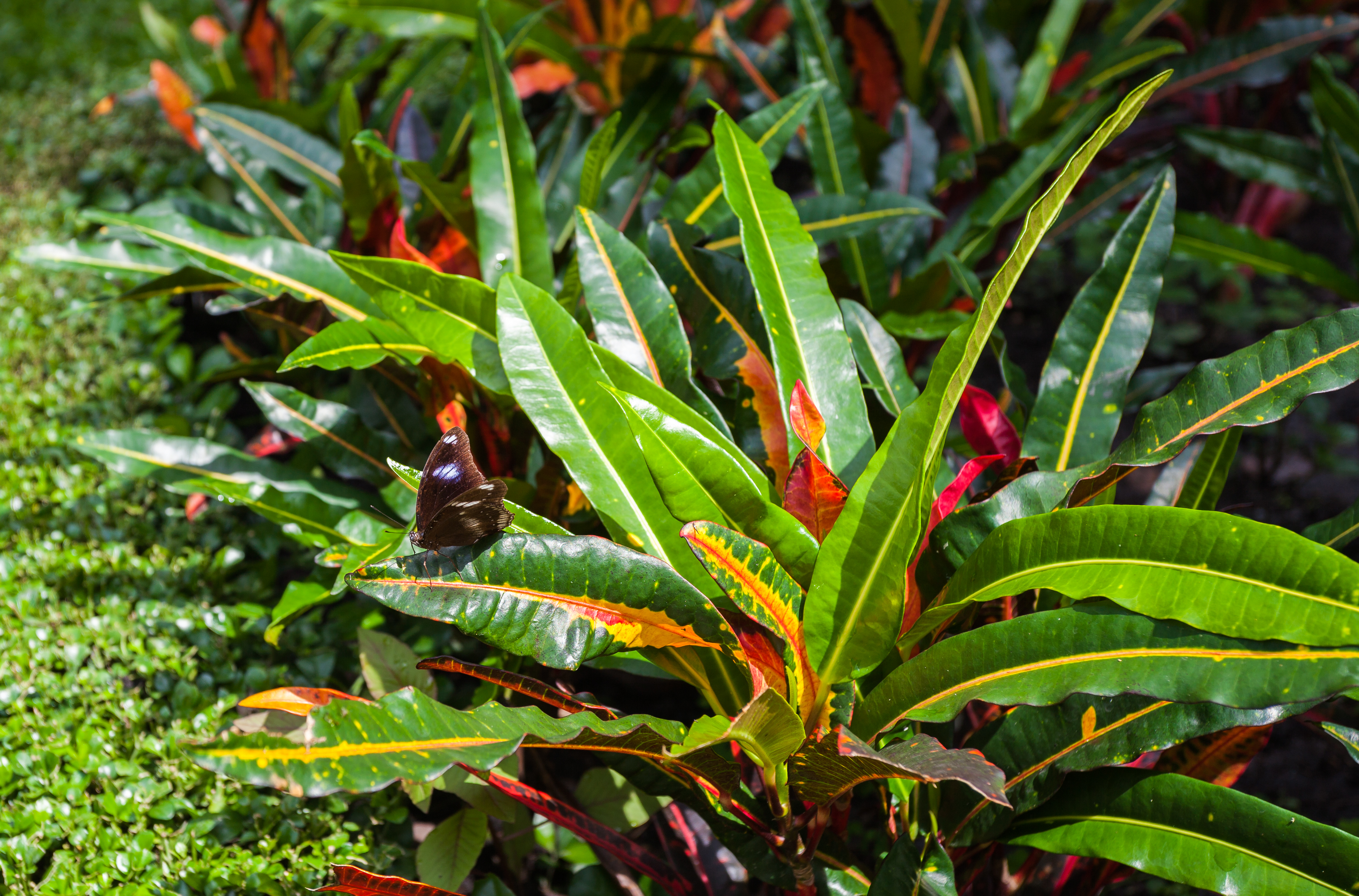 Codiaeum variegatum, Ho Chi Minh City, Vietnam